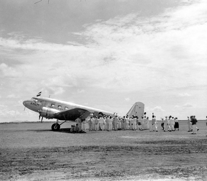 The first KNILM flight to the airfield Oelin near Bandjermasin, Kalimantan